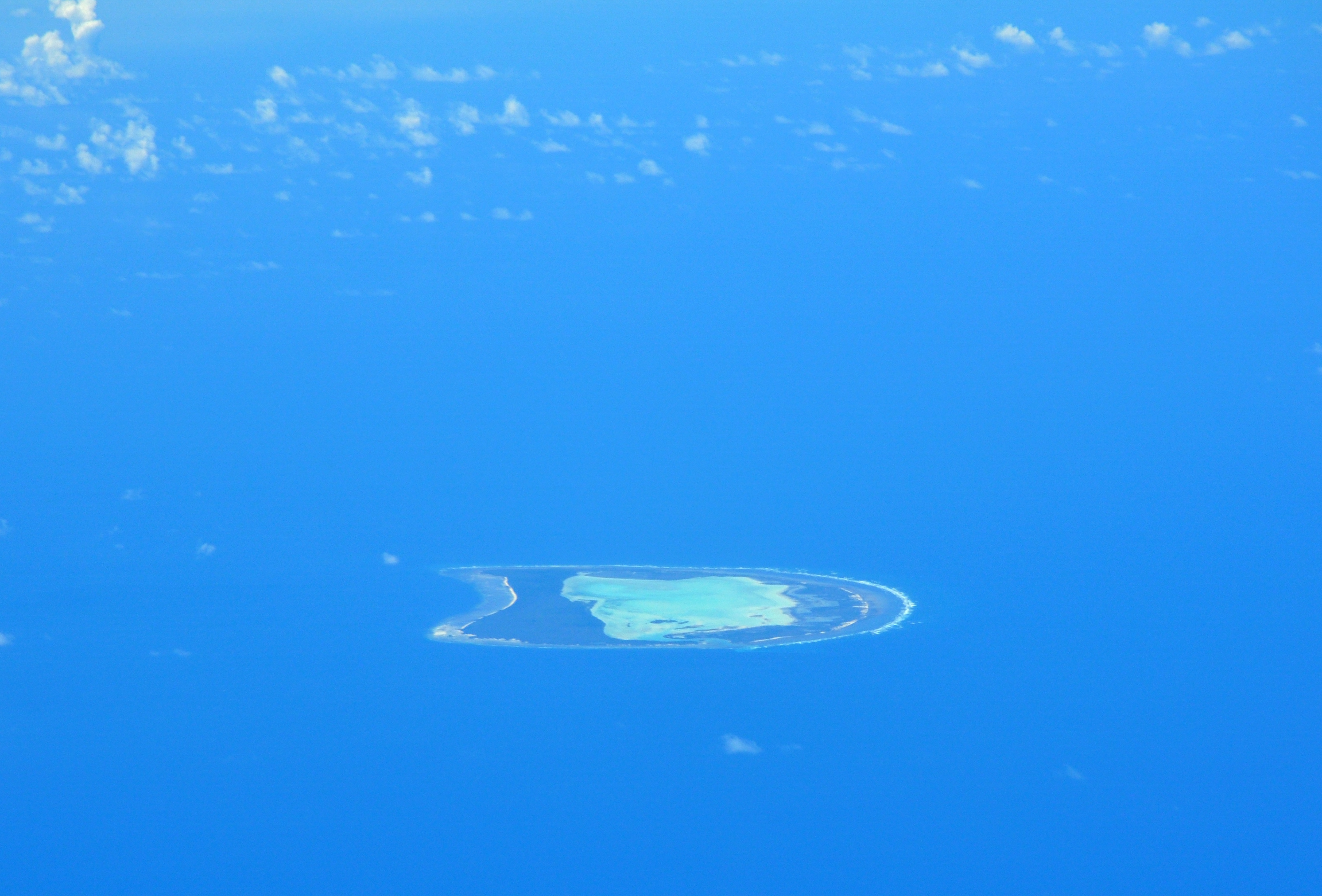 Astove Island